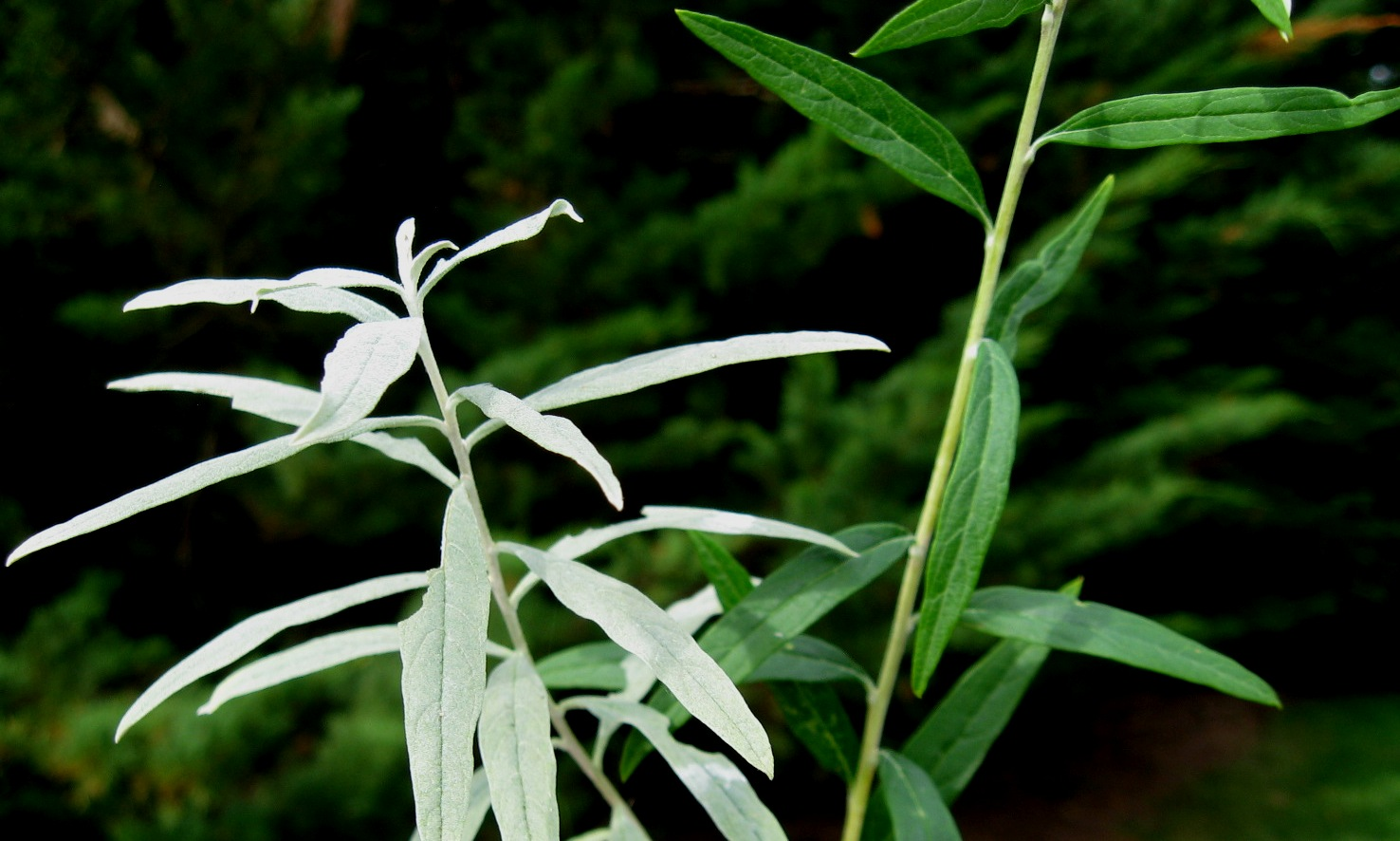 Photo taken at the Longstock Park Nursery, UK, NCCPG national buddleja collection holder, August 2012